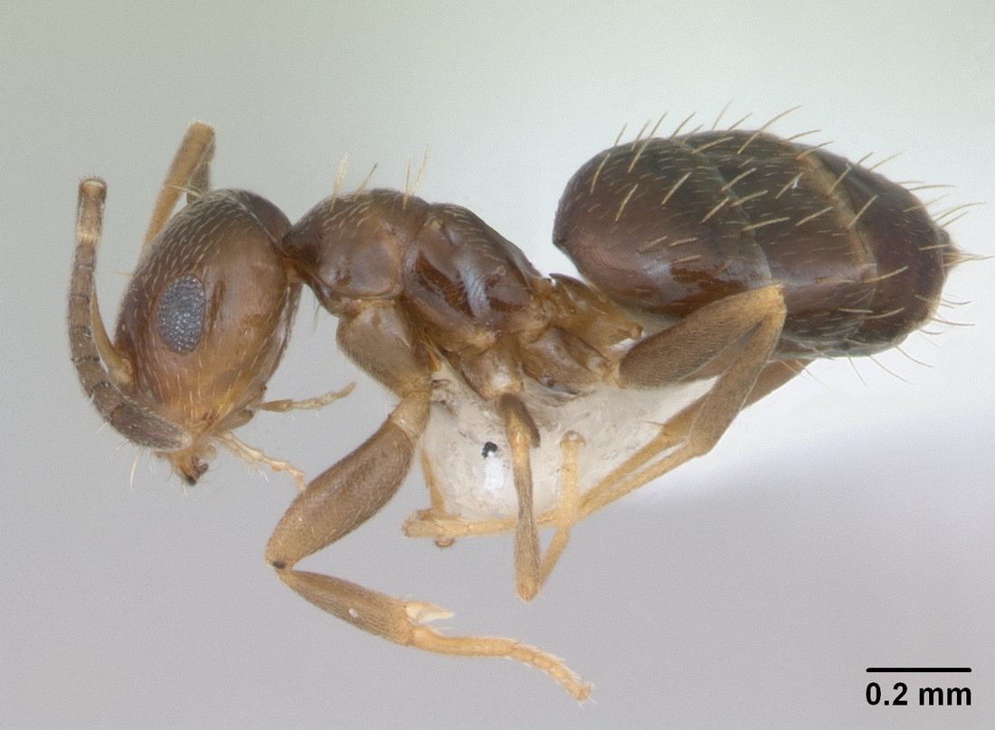 Profile view of ant Brachymyrmex patagonicus specimen casent0173480.